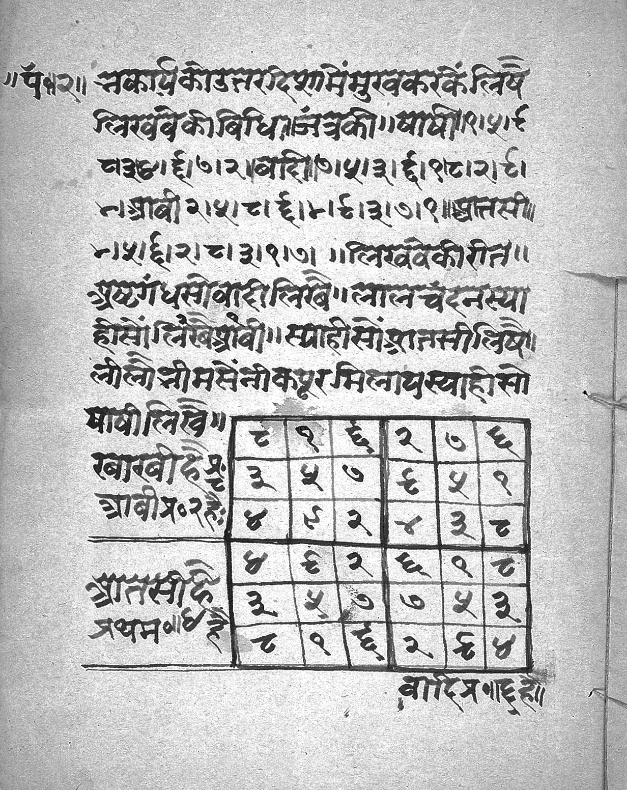 Unidentified, Pandarai de jantra ki vidha. Magic square Asian Collection